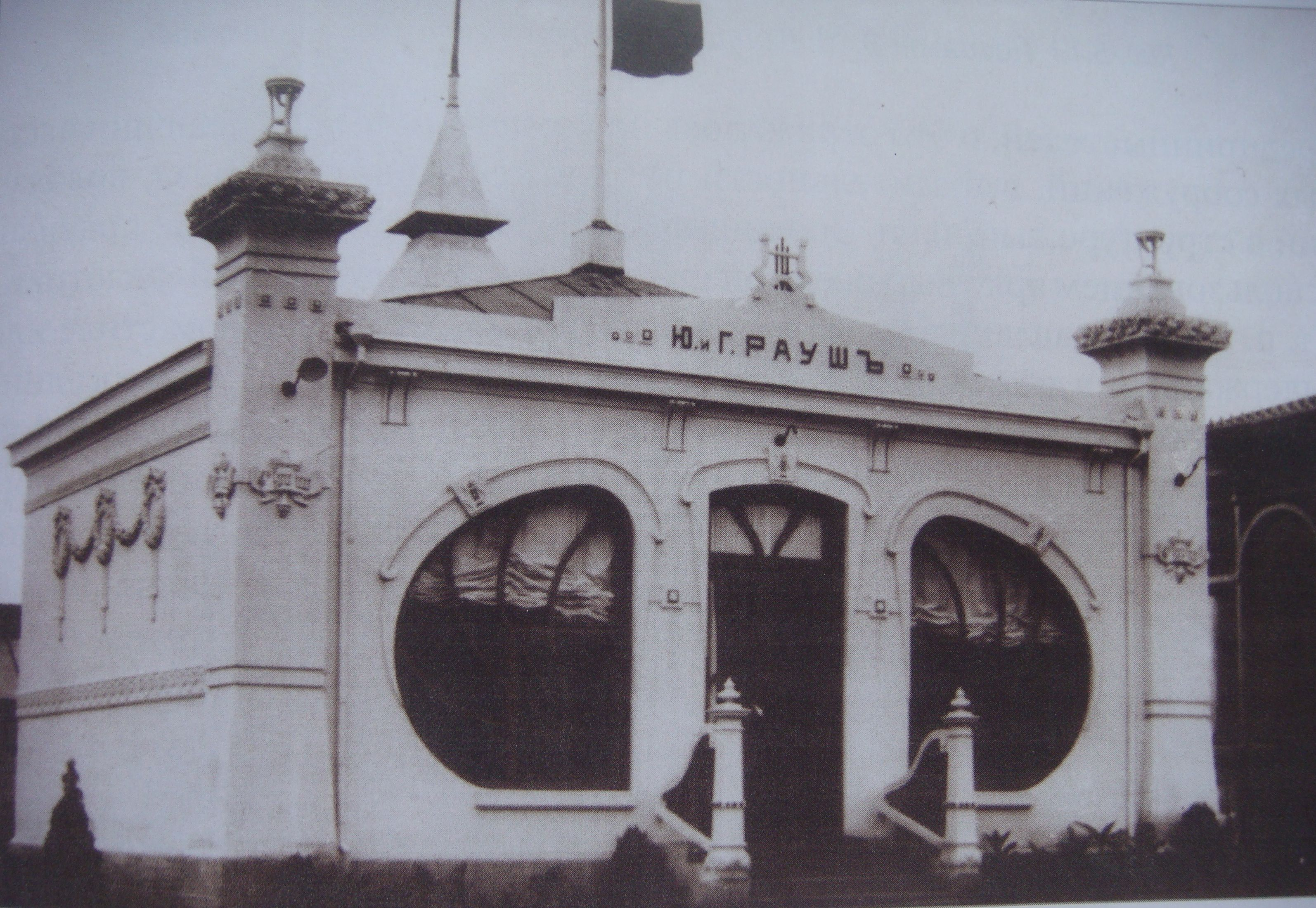 Pavilion of Raush Ltd at Odessa Art & Industry Exposition, 1910